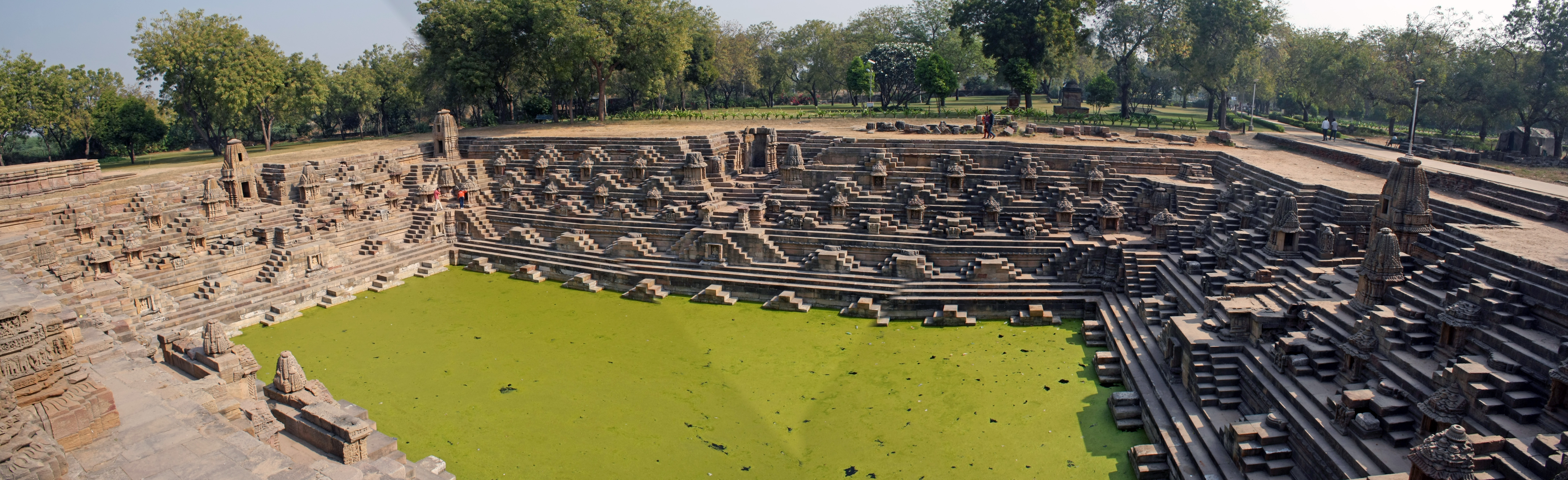 Panoramic view of Sun temple, Modhera